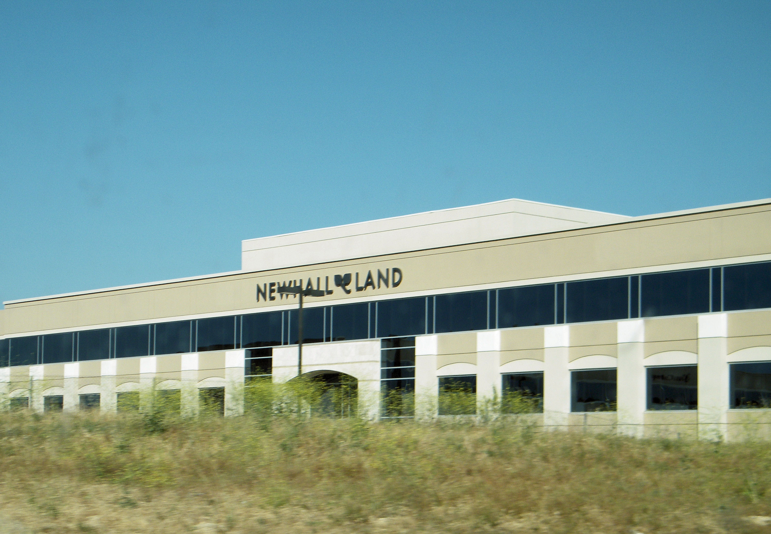 Newhall Land and Farming Company headquarters in Valencia.